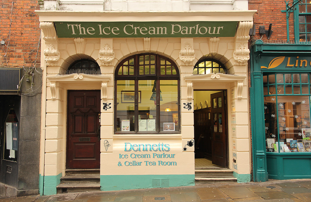 Dennett's Ice Cream Parlour. 3 Bailgate Grade II* listed Ice Cream Parlour at number 3 Bailgate. Formerly the Midland Bank with a front of 1913 by Scorer and Gamble, but like many properties on Bailgate, with an earlier structure inside. The basement has a 13th century quadripartite vault and some other medieval masonry